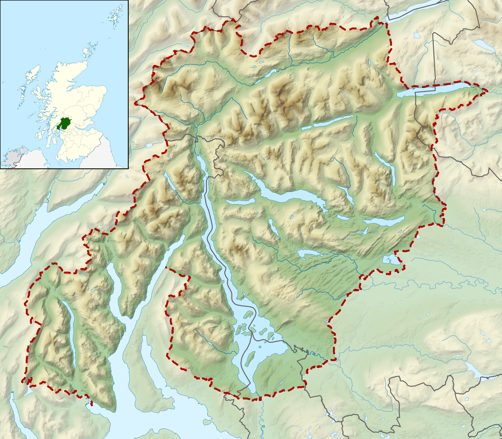 Relief map of the Loch Lomond and The Trossachs National Park, UK Equirectangular map projection on WGS 84 datum, with N/S stretched 170% Geographic limits: West: 5.15W East: 4.05W North: 56.50N South: 55.95N